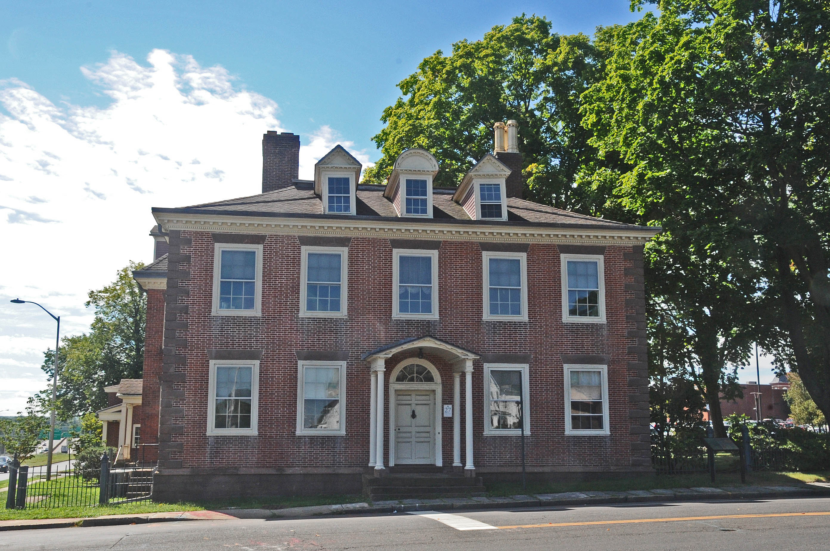 AKA DEKOVEN COMMUNITY CENTER; GEORGIAN MANSION BUILT BETWEEN 1791 AND 1797. 27 Washington Street, Middletown, Connecticut, U.S.